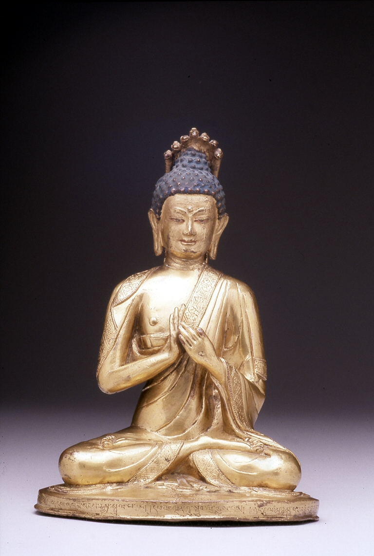 This image was commissioned by a senior monk ("lochen"), and it was made by Tsapa Namgyal, whom the inscription may characterize as an assistant sculptor. The artist is otherwise unknown, nor do we know who the donor was. Several Nagarjunas are familiar in the Indo-Tibetan tradition, the earliest and the most important being the one who flourished in India in the second century. He is regarded as the chief proponent of the Madhyamika school of Buddhist philosophy and the virtual founder of Mahayana Buddhism. However, at least two other major figures of Vajrayana Buddhism, who lived successively in the 10th and 11th centuries, are also known as Nagarjuna. The 11th-century Nagarjuna was an important mahasiddha (see Dowman 1985, pp. 112-22). Both the philosopher and the tantric teacher are given the same iconographic features.